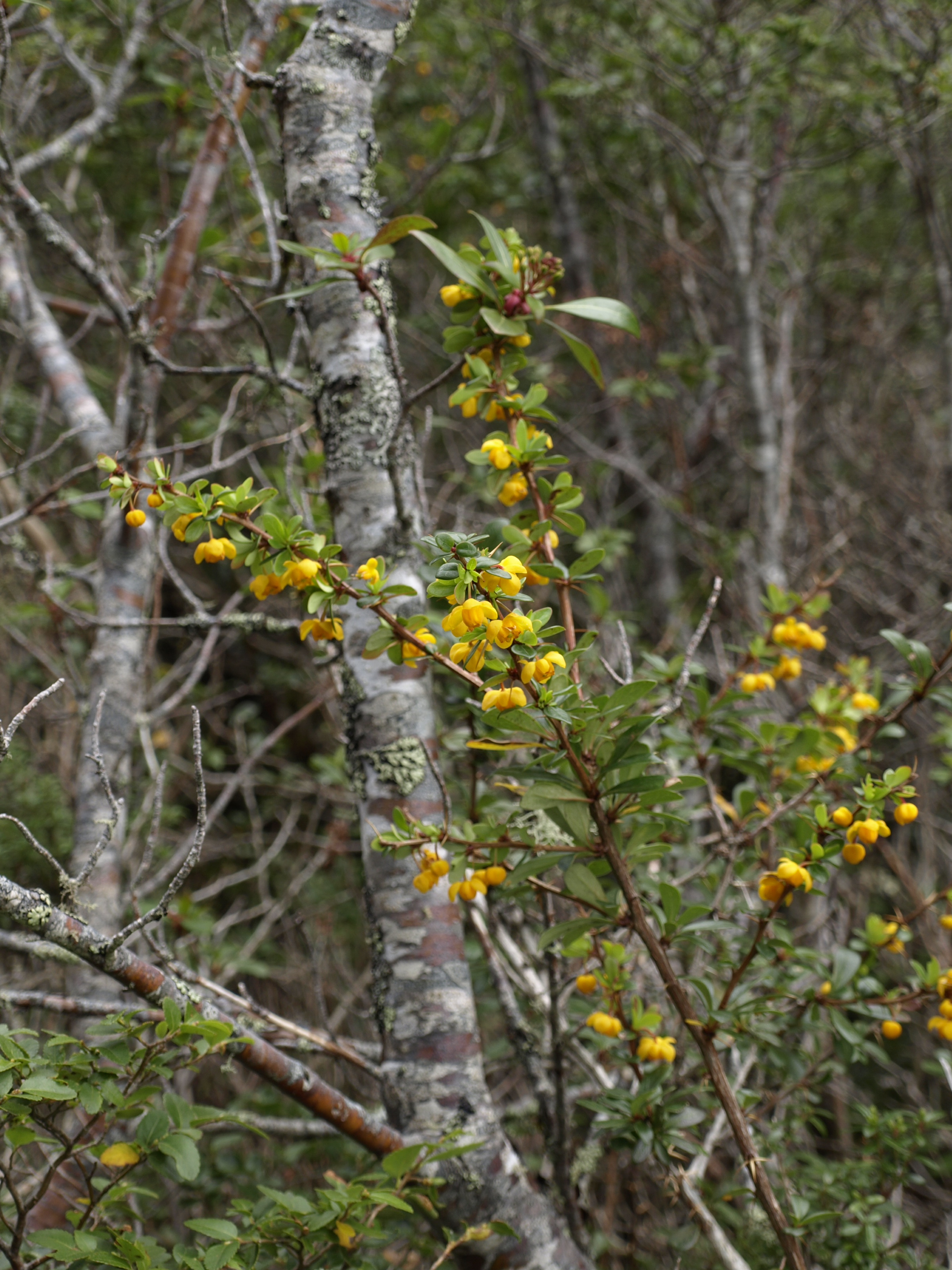 slopes of Volcan Osorno, vicinity of Lago Llanquihue, Chile. One of three sympatric Berberis species at this locality.